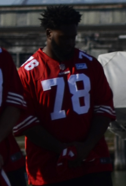 151005-N-RU841-004 SAN FRANCISCO (October 5, 2015) – San Francisco 49ers football player Torrey Smith speaks to the crew and guests of USS Somerset (LPD 25) during a ceremony held aboard as a part of San Francisco Fleet Week. Smith along with other 49ers players gave a football demonstration while signing autographs and taking pictures with fans, then took the opportunity to witness future service members take the oath of enlistment followed by a Marine Corps promotion ceremony. (U.S. Navy photo by Chief Mass Communication Specialist Mark R. Alvarez/Released)